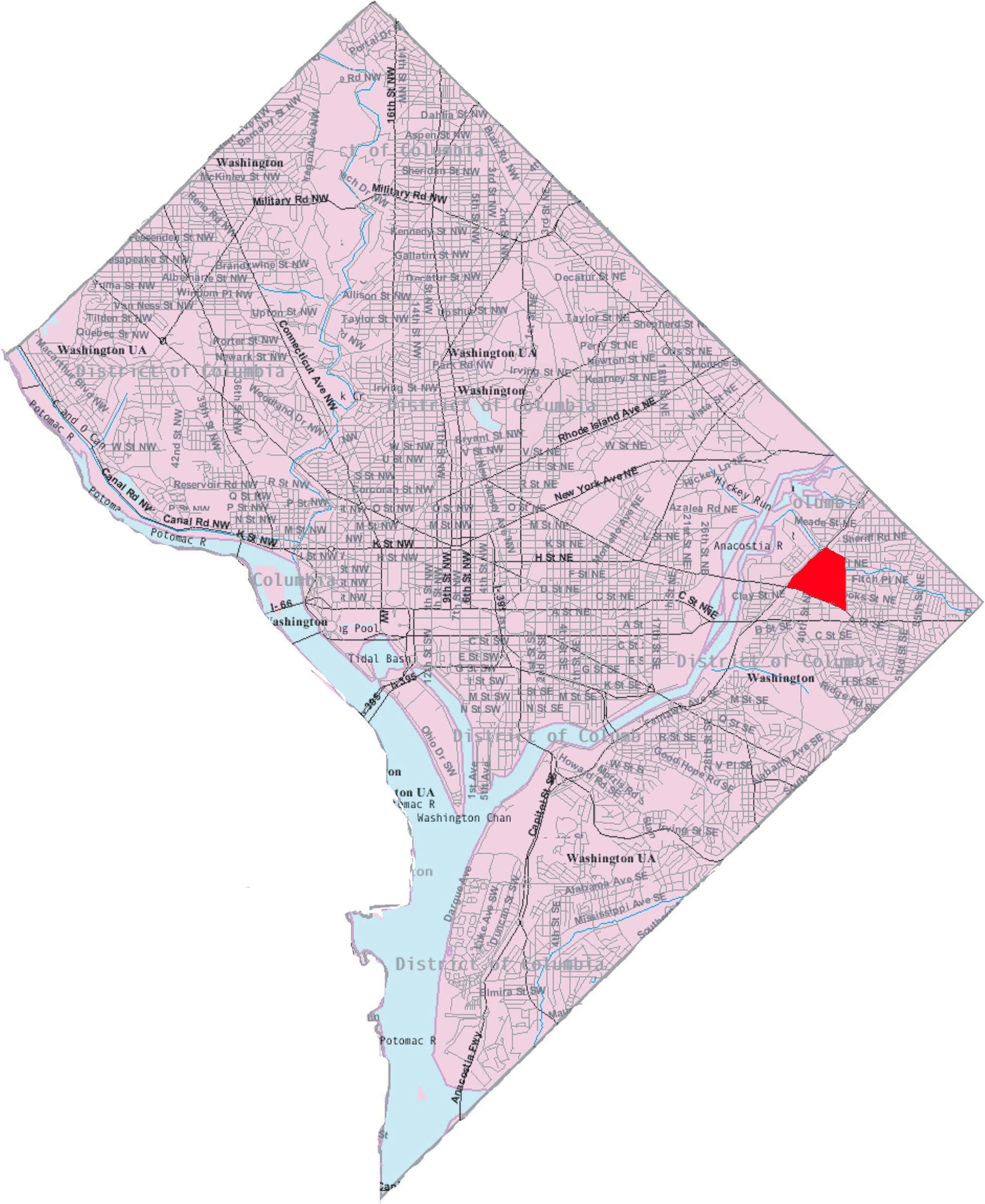 This image is a modified version of a self-generated reference map from the U.S. Census Bureau's American Factfinder at by Wikipedia user Msclguru.